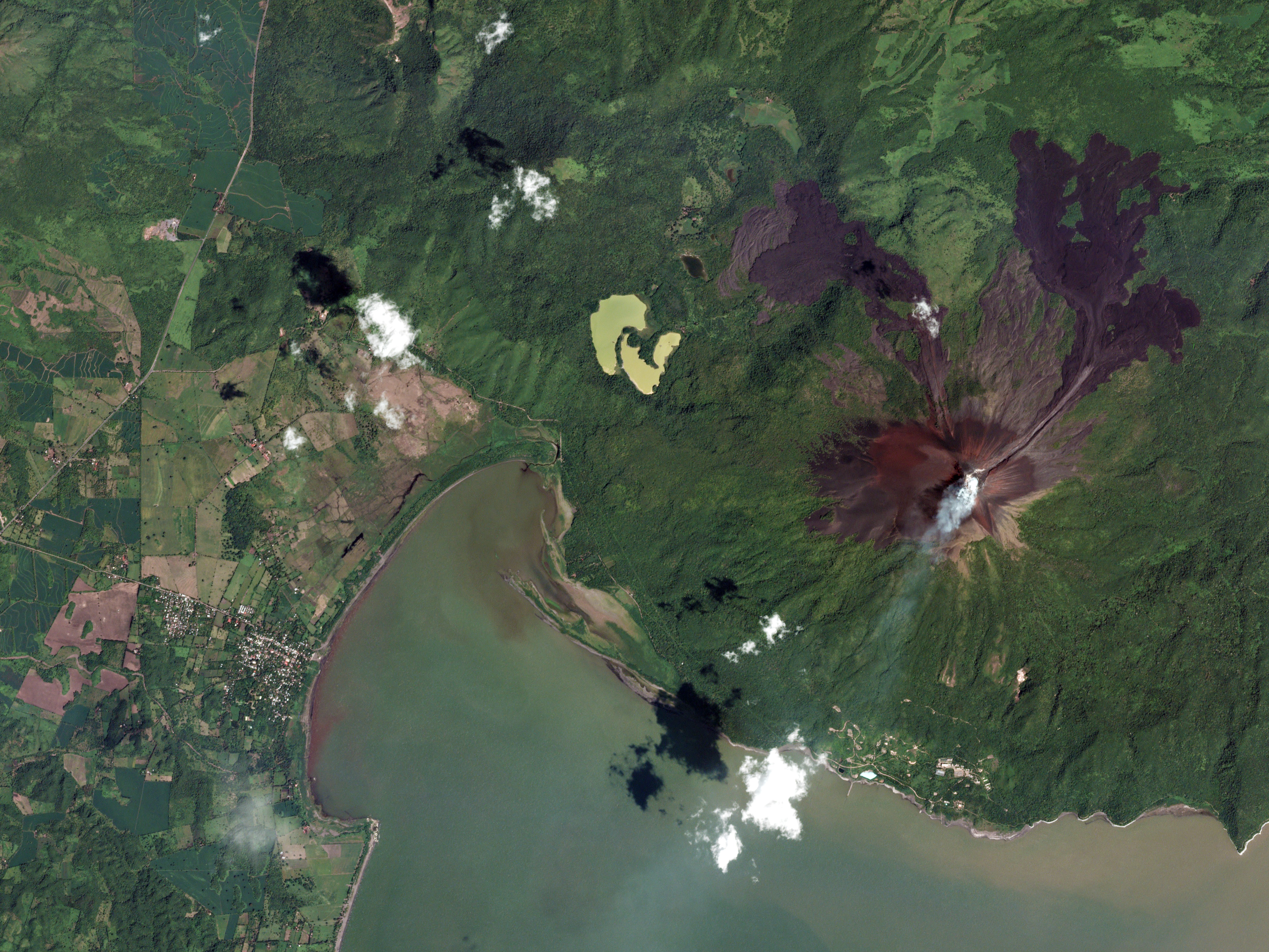 Momotombo, Nicaragua October 25, 2016 Momotombo Volcano puffs ash and gases from her fiery perch 4,000 feet above sea-level. In 1578, Leon Viejo—then-capital of Nicaragua—which was partially destroyed by an eruption.